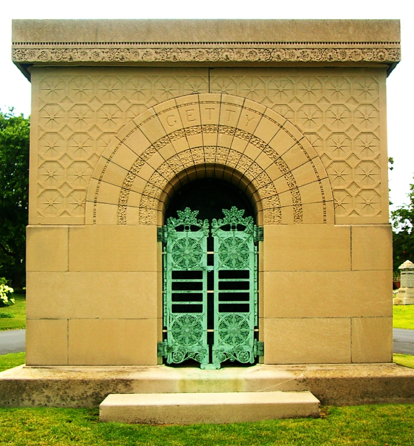 This is a photo of the front side of the Getty Tomb, designed by Louis Sullivan, in Graceland Cemetery, Chicago, Illinois.